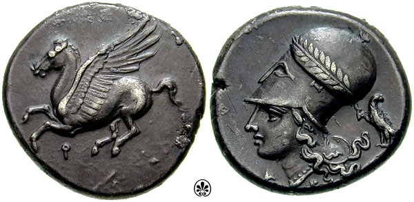 Corinth. Circa 345-307 BC. AR Stater (8.53 g) Pegasos flying left Laureate and helmeted head of Athena left; A-P at neck, eagle standing left, head reverted, behind. Pegasi I pg. 262, 426 (same dies); Ravel 1008.